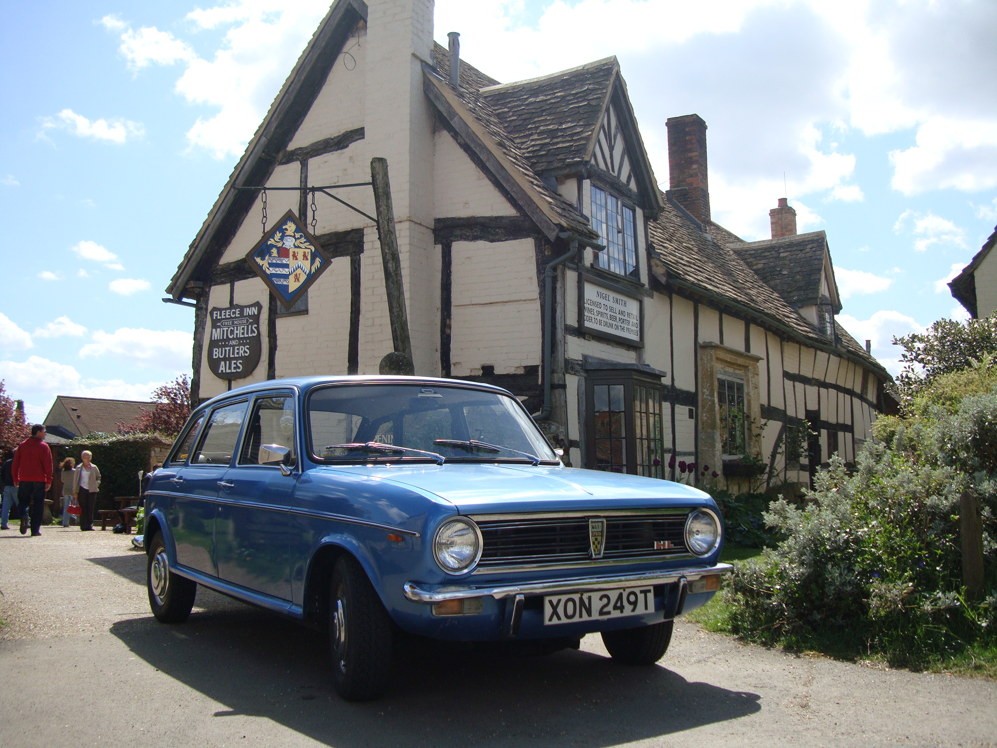 Leyland Cars (Austin Morris) Maxi 1750HL Astral Blue Metallic Black Trim, Registered 1979 Built 1978 as Swedish Specification LHD Converted at factory to RHD